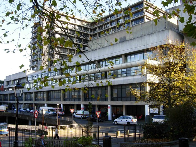 Royal Free Hospital, Hampstead The hospital was originally founded in 1828 to provide free care to those who could not afford hospital treatment. It moved to its present site in the mid-1970s and is now a large teaching hospital providing about 900 beds.